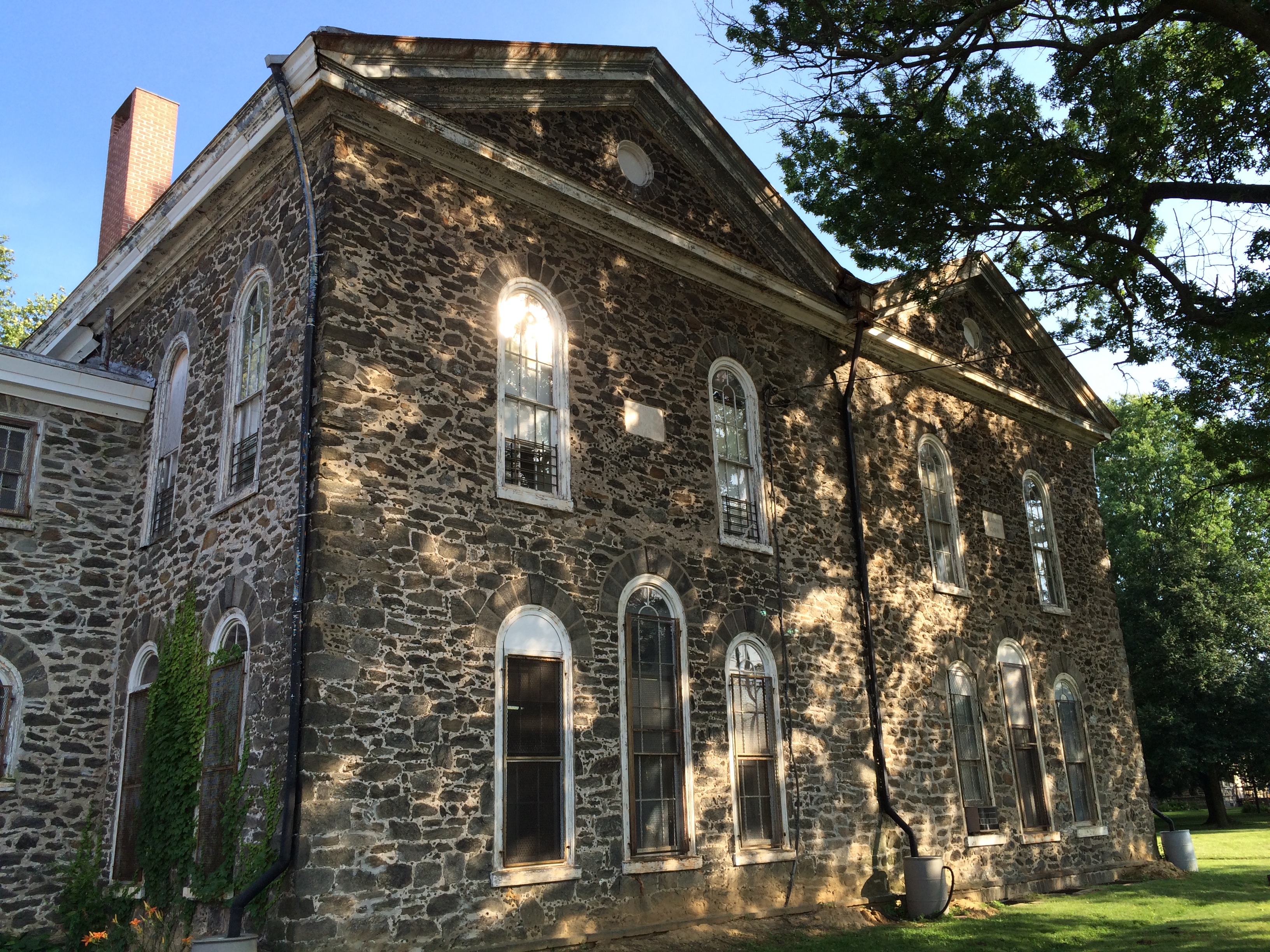 Galleting at north facade